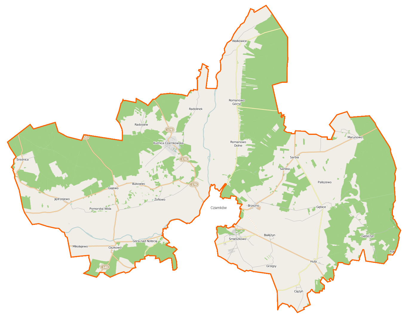 Map of Gmina Czarnków, Poland This map of Czarnków (gmina wiejska) was created from OpenStreetMap project data, collected by the community. This map may be incomplete, and may contain errors. Don't rely solely on it for navigation. Border coordinates53.047816.3198←↕→16.790952.8266